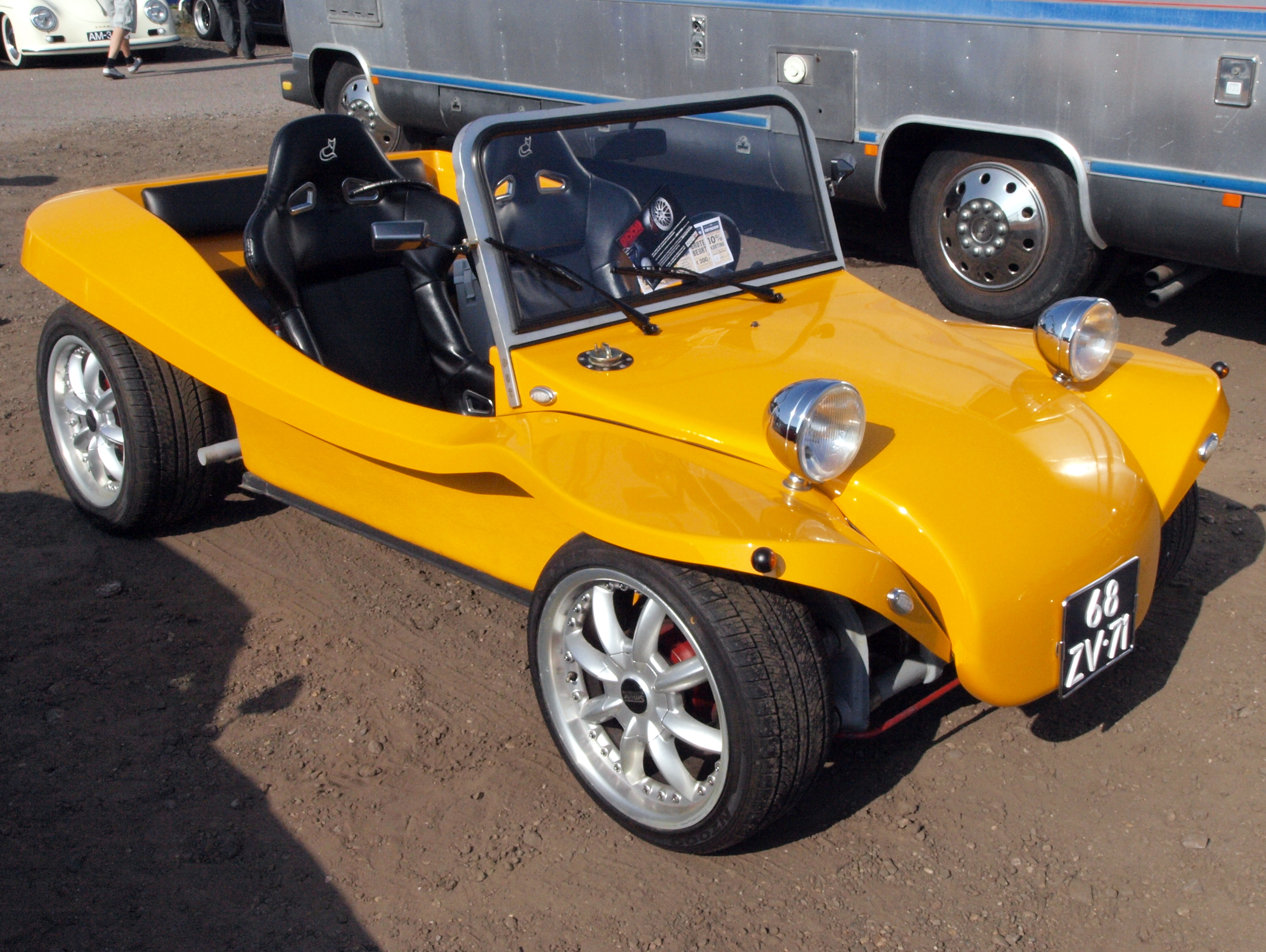 Photographed at the Nationaal Oldtimer Festival Zandvoort 2009, The Netherlands. OLYMPUS DIGITAL CAMERA